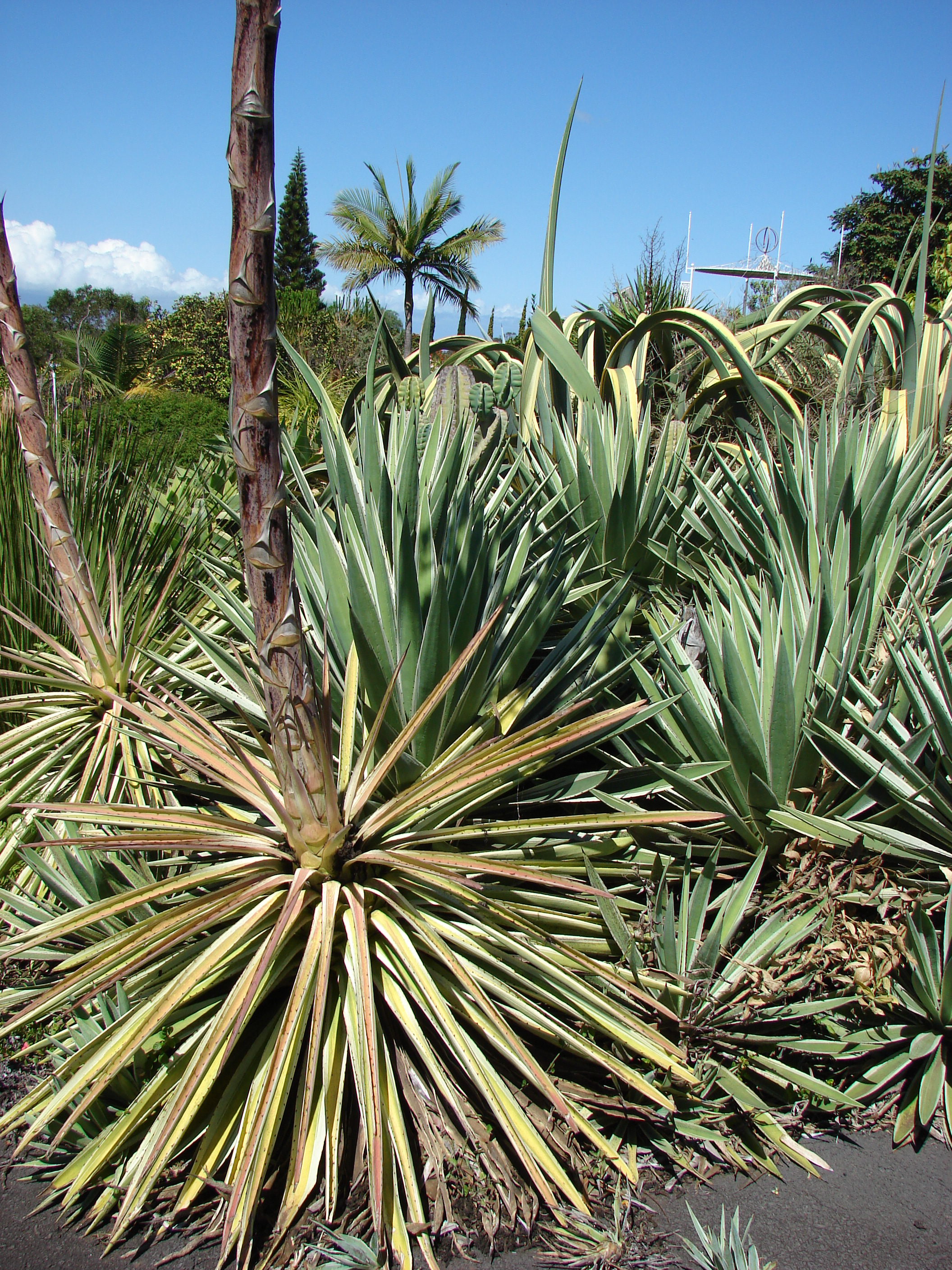 Agave vivipara (habit). Location: Maui, Enchanting Floral Gardens of Kula